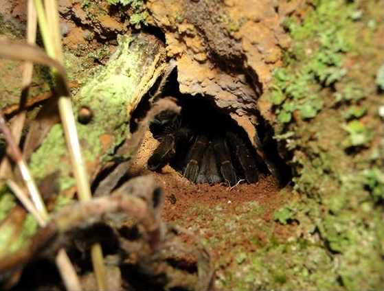 Acanthoscurria gomesiana, female in burrow.